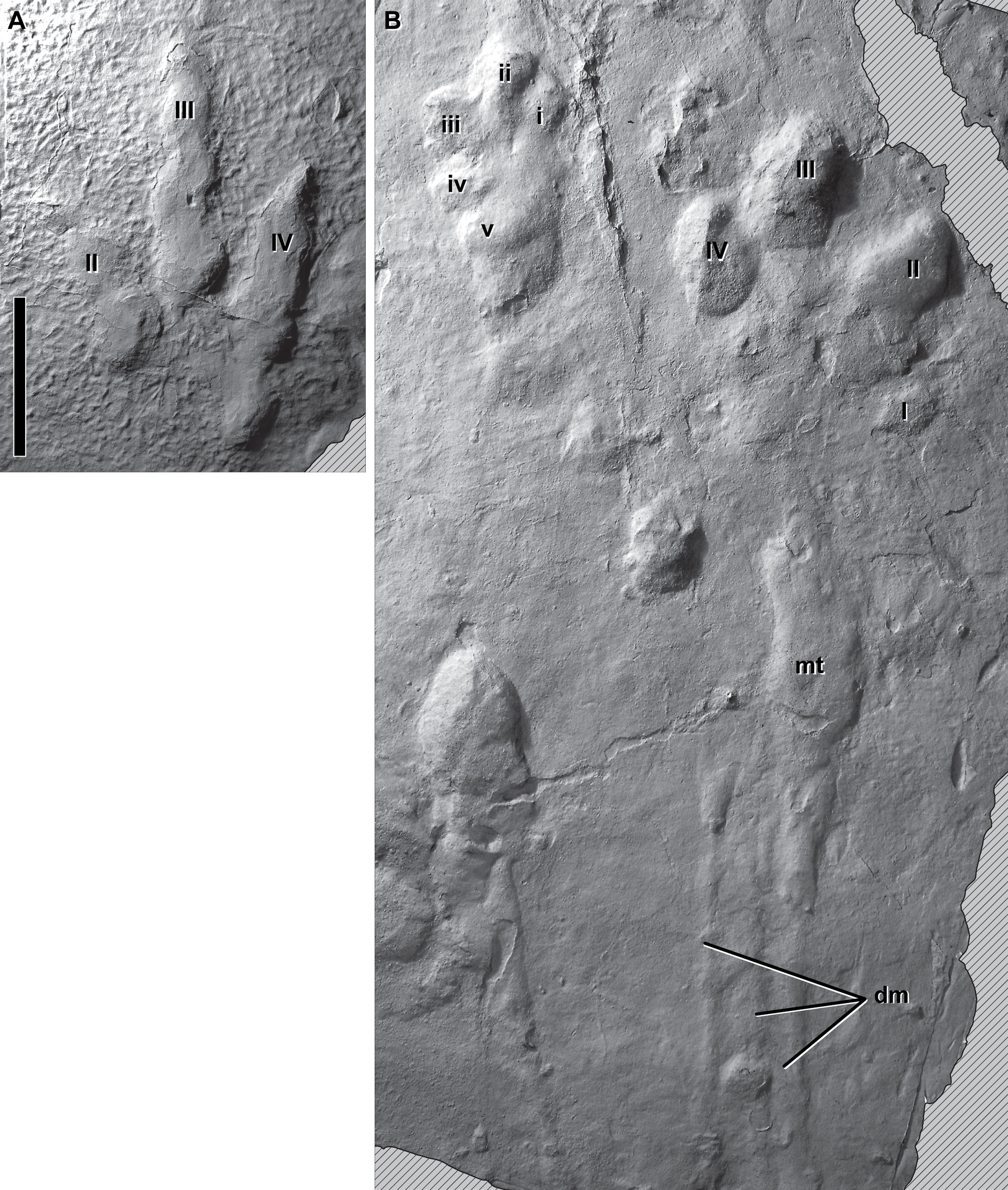 Moyeni dinosaur tracks. Photographs of plaster casts (positives) of Grallator track 6 (A) and Anomoepus track 8 (B) made at the Moyeni tracksite by the authors. Tracks are shown at the same scale (10 cm), and hatching pattern indicates broken surfaces. The Grallator hind foot print was made by pedal digits II–IV; the trackmaker's phalangeal formula was 3–4–5. Digits I and V did not contact the substrate. The rugose texture surrounding the print is the algal mat. The Anomoepus manus–pes couple registers all five manual digits (i–v), four pedal digits (I–IV), the metatarsus (mt), and toe drag marks (dm). Additional structures to the left of the pes are incidental marks made by a different trackmaker.